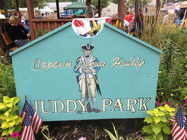 Sign at Huddy Park, Atlantic Highlands, New Jersey